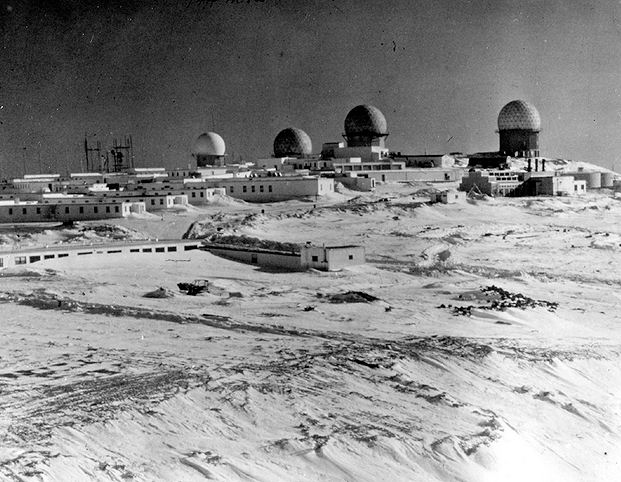 Murphy Domme AFS, Alaska